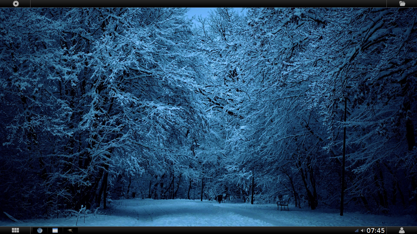 Screenshot of Symphony OS 14.0.